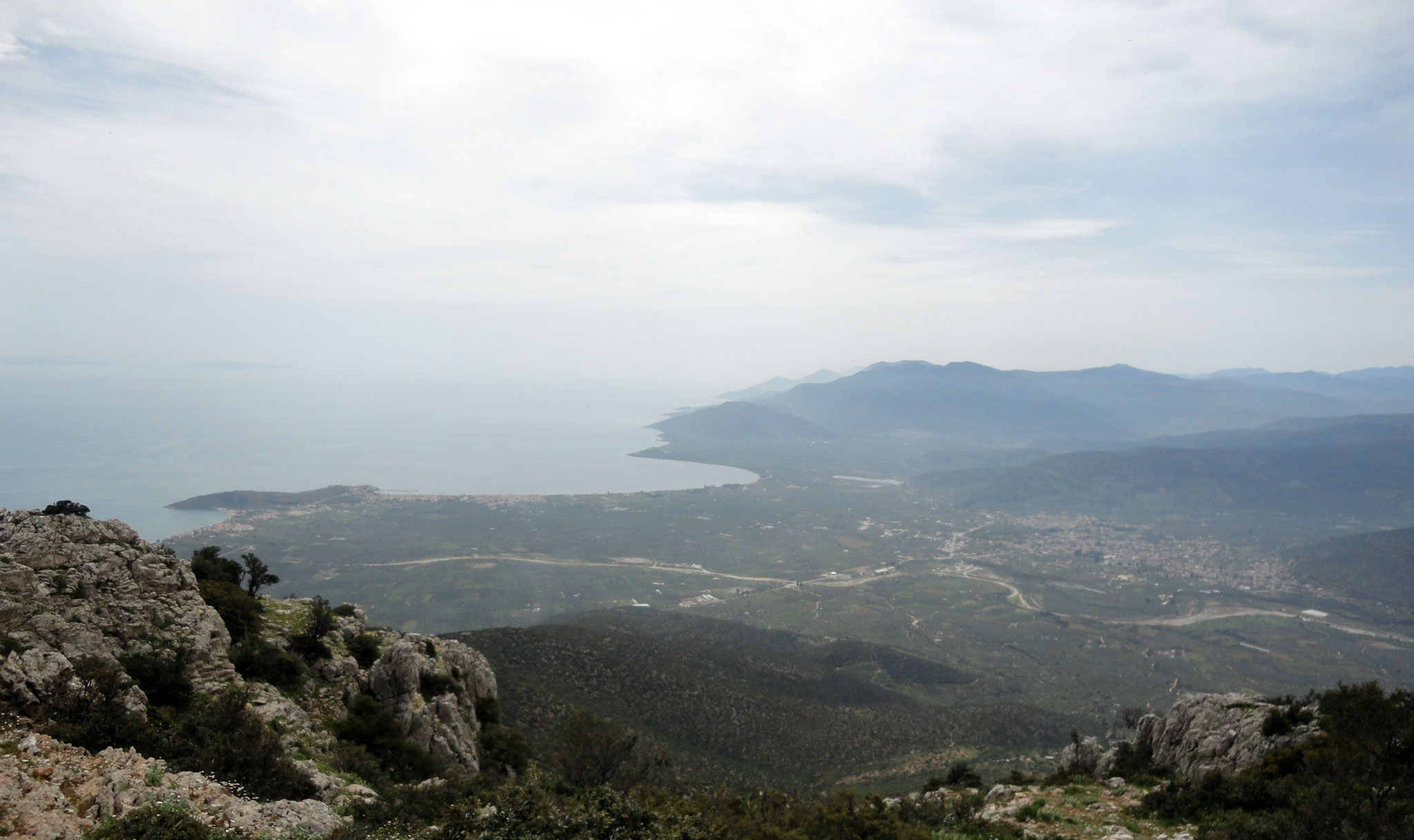 The valley of Thyrea from mountain Zavitsa. The communities of Astros (on the right) and Paralio Astros (on the left) are visible.